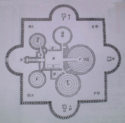 A schematic of Tycho Brahe's subterranean astronomical observatory Stjerneborg (Stelleburgi). This plan-view schematic shows the observatory bounded by a square wall with semi-circular extensions on each side, the entrance on the left lies in the direction of the nearby palace Uraniborg. Annotations are: * A = Entrance with steps leading down into the main workroom (B) and (D) and (E), above are three lion sculptures and Latin inscriptions * B = The main Workroom containing (P) and (V) and passages to (C), (F), (G), and (Q) * C = chamber with large equatorial instrument * D = chamber with elevation and azimuth quadrant * E = chamber with armillary sphere * F = chamber with elevation and azimuth quadrant encompassed by a steel square * G = chamber with sextant for measuring distances * H = stone pillars one with a ball on top, the other angled, situated at the near side * I = stone pillars one with a ball on top, the other angled, situated at the far side * K, L, N and T = large balls, with conical covers, used for mounting instruments * M = Stone table, shown with sundial in Willem Blaeu's drawing * O = bed of Tycho Brahe * P = fireplace * Q = Tycho's assistant's bedroom * S = beginning of an underground passage to Uraniborg * V = worktable